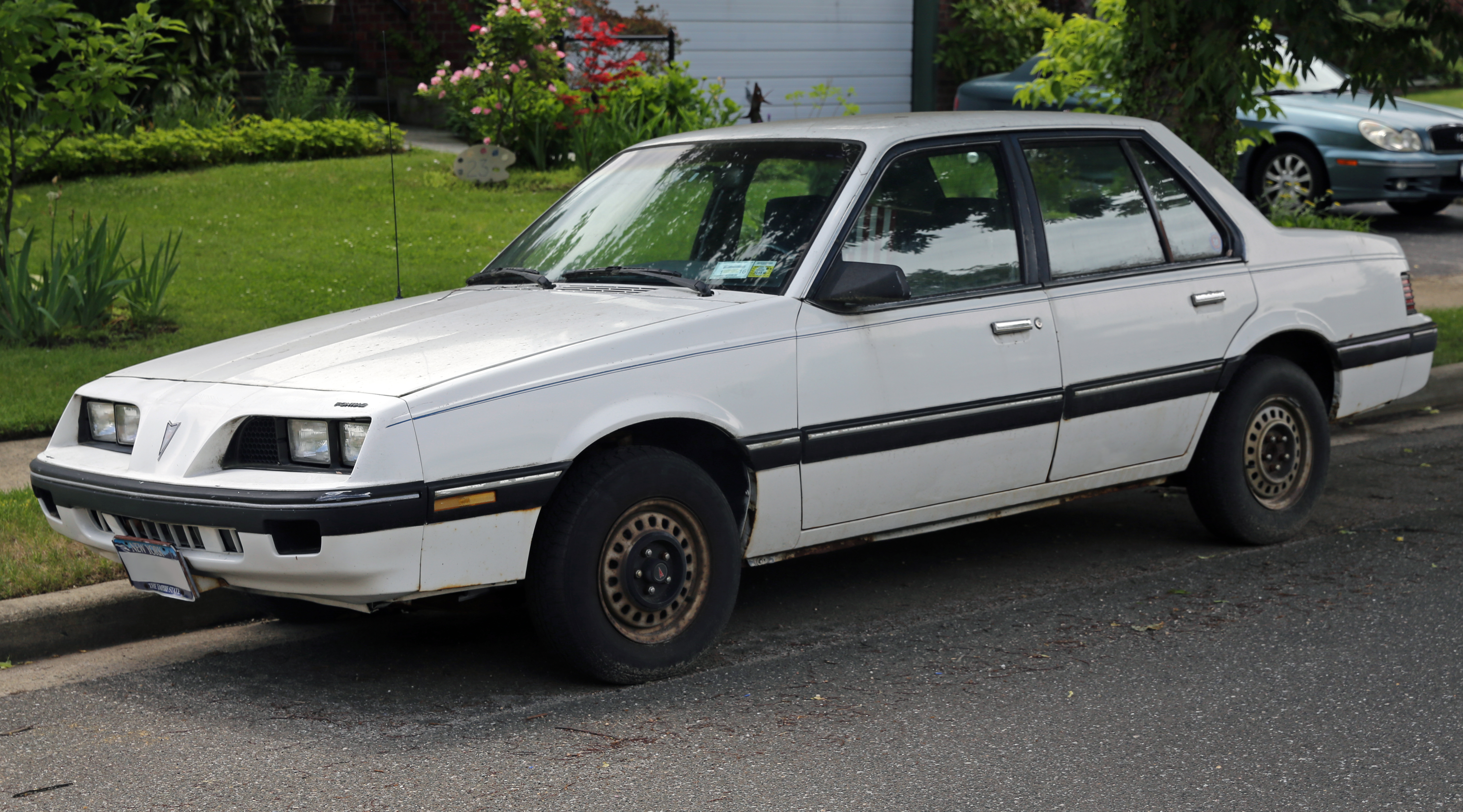 A 1986 Pontiac Sunbird, base four-door with the Brazilian-built, 84hp 1.8 with throttle-body fuel injection (LH8). Assembled in Lordstown, Ohio. Massive surface rust, removed with photoshop.